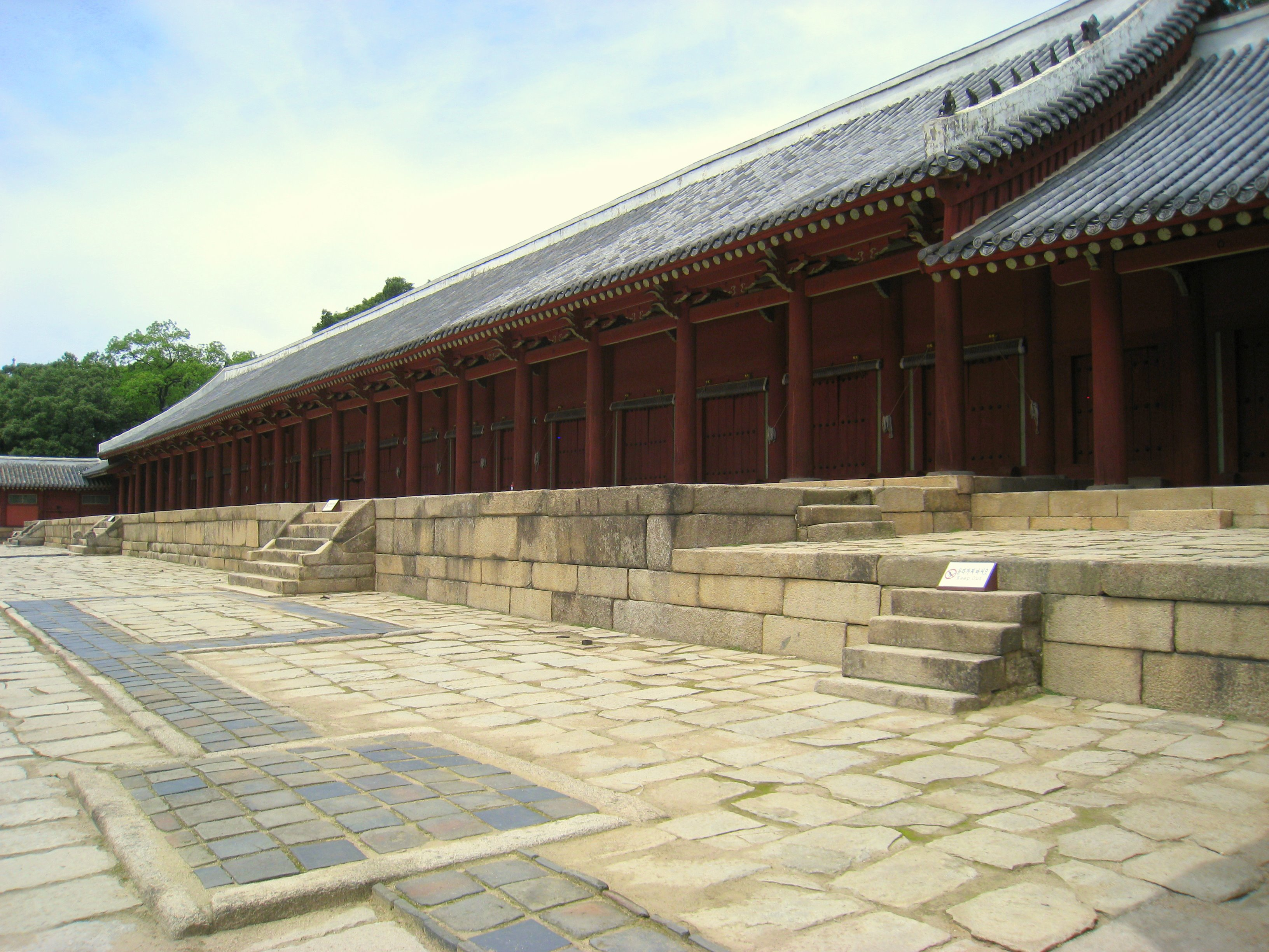 Jeongjeon, Jongmyo Shrine (oblique view) - Seoul, Korea.